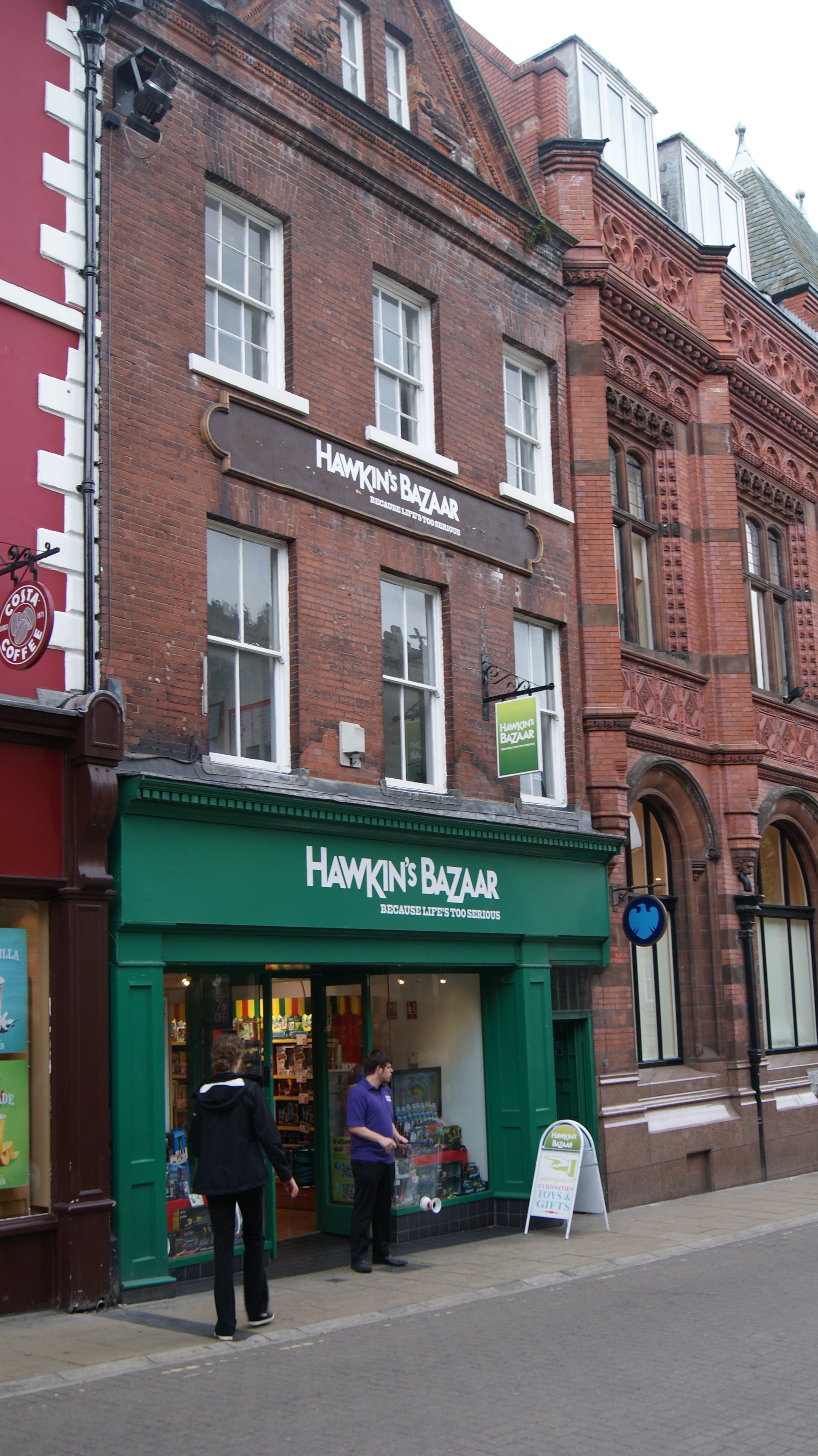 Hawkins Bazaar, High Ousegate, York, North Yorkshire. Taken on the afternoon of Wednesday the 12th of June 2013.